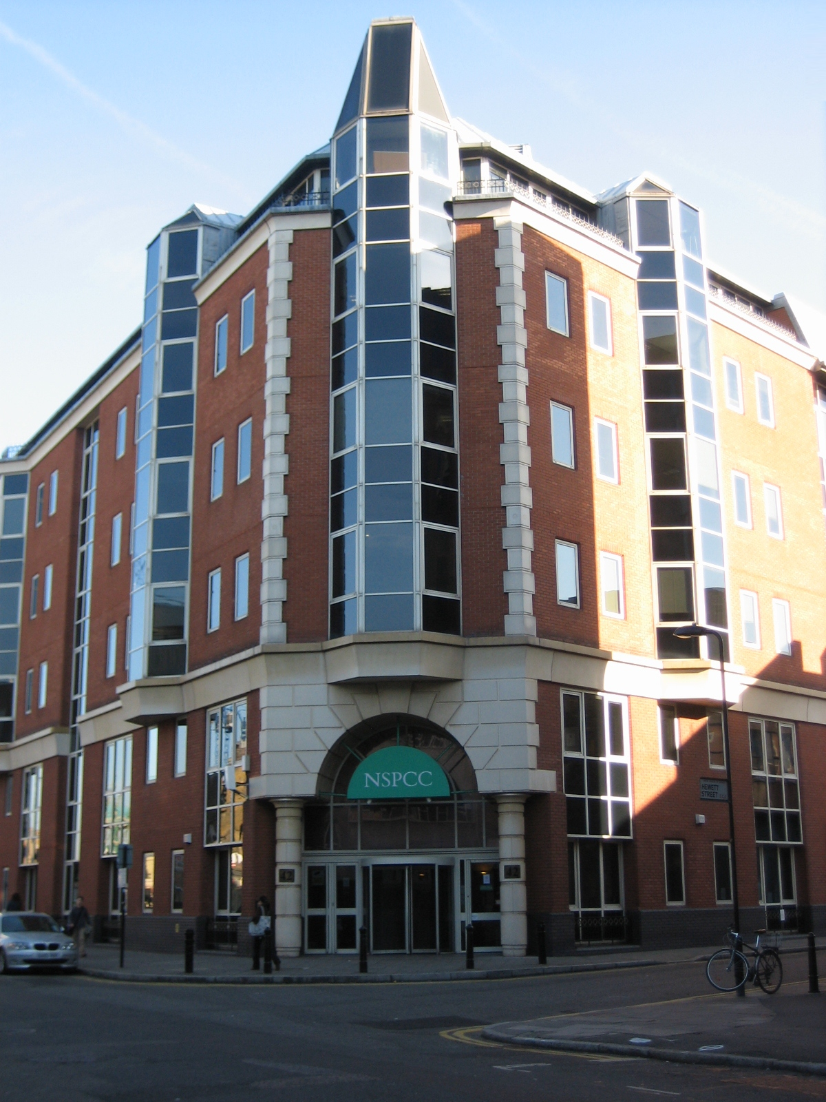 Children's charity NSPCC's head office at 42 Curtain Road London, Greater London EC2A 3NH.